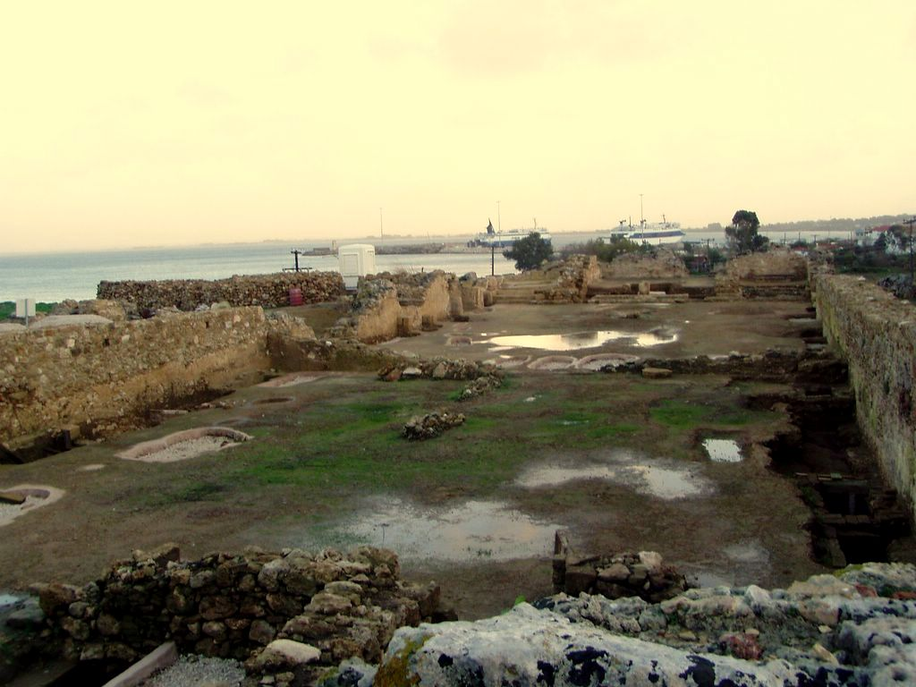 The remains of the Glarentza fort medieval portside fortification, now undergoing excavation and reconstruction. After waiting two days for a ferry to leave Kefalonia, I arrived at Kylini to find the weather had closed in again, and no ferries would run to Zakynthos that day, so I had to sleep over until morning. The perils of winter inter-island travel.